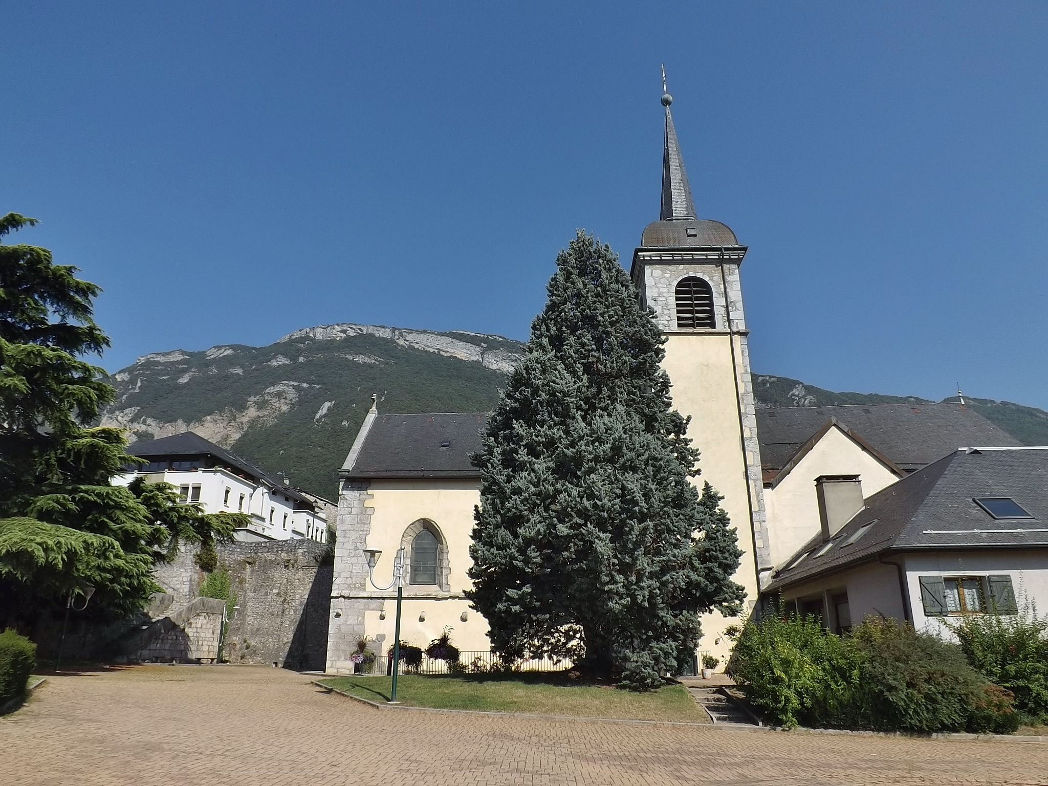 Sight of the French city of Montmélian church, in Savoie.